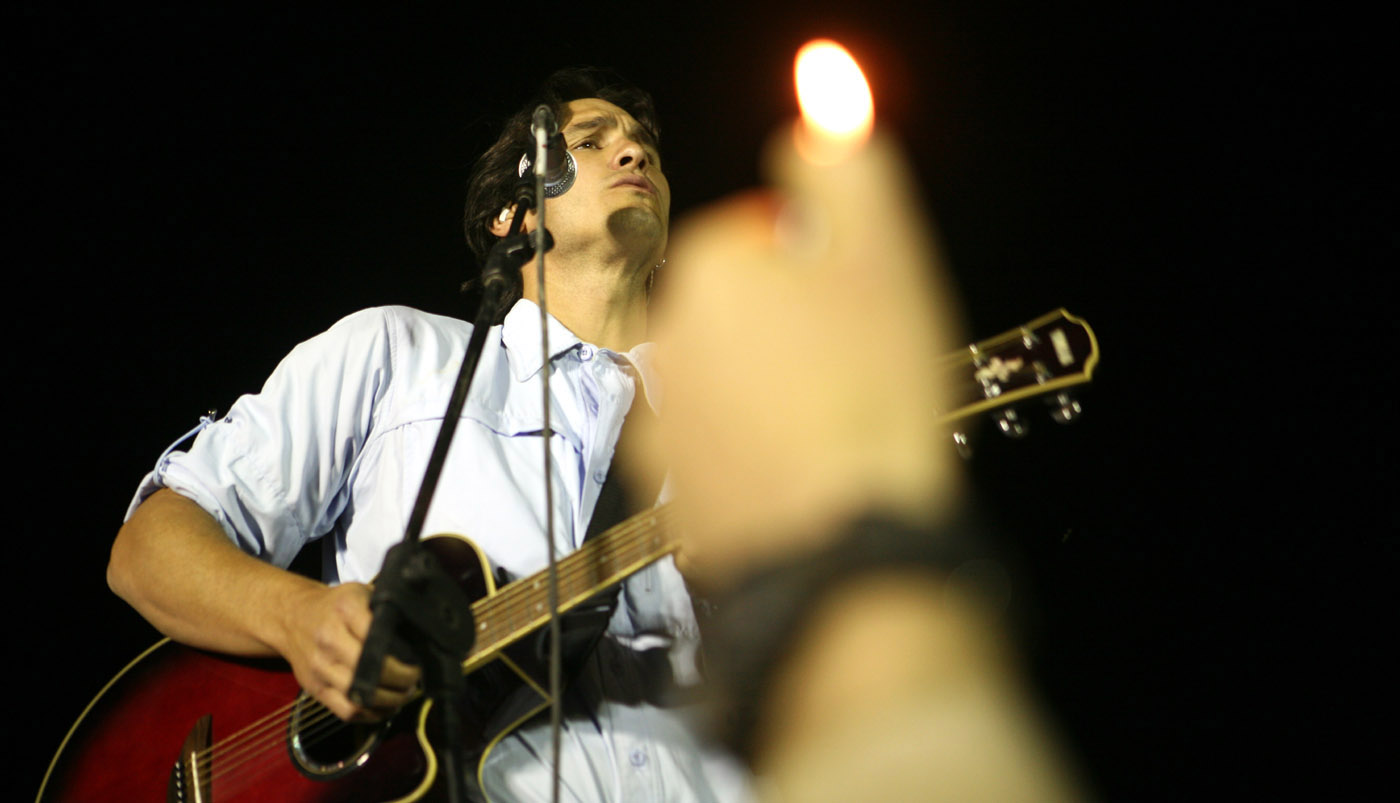 A crowd member holds up a lighter to one of Joe Nichols slower songs at a concert aboard Camp Al Taqaddum, Iraq, June 6, 2009. The show was part of the country music star's ten-day tour of the country to honor the men and women who serve in the armed forces. (U.S. Marine Corps photograph by Cpl. Bobbie A. Curtis)